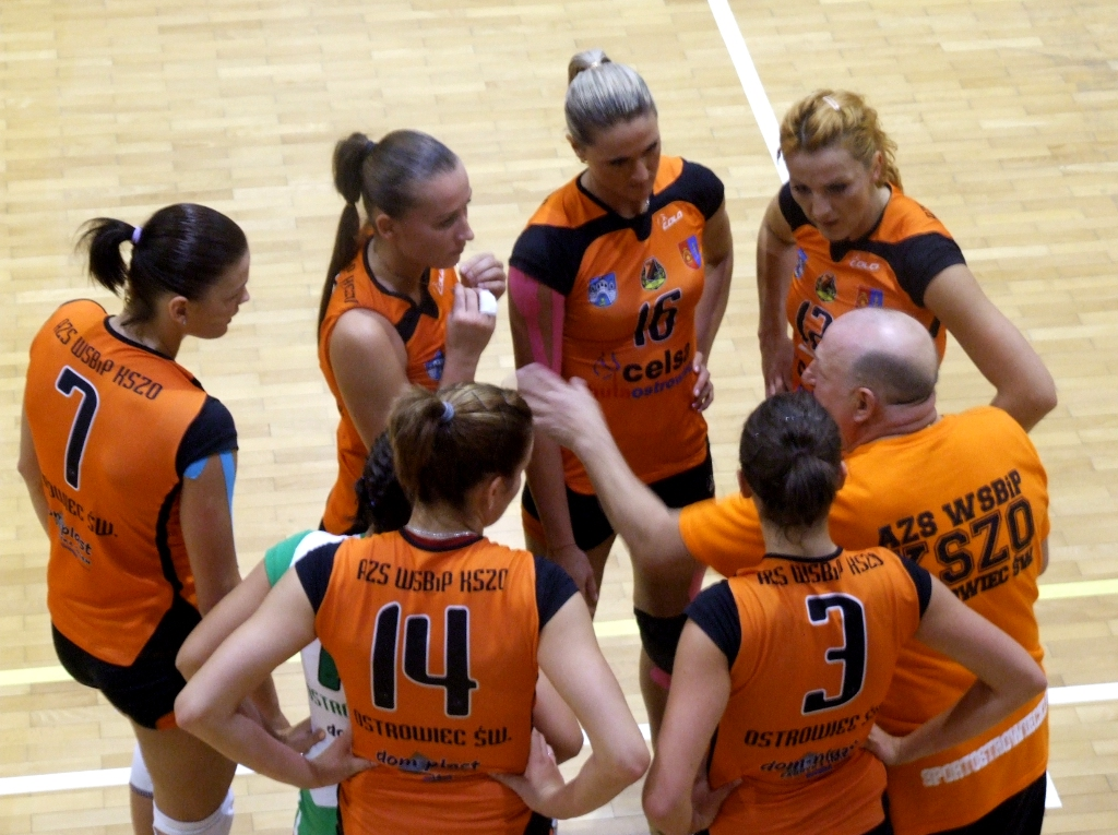 Volleyball team AZS WSBiP KSZO Ostrowiec Swietokrzyski